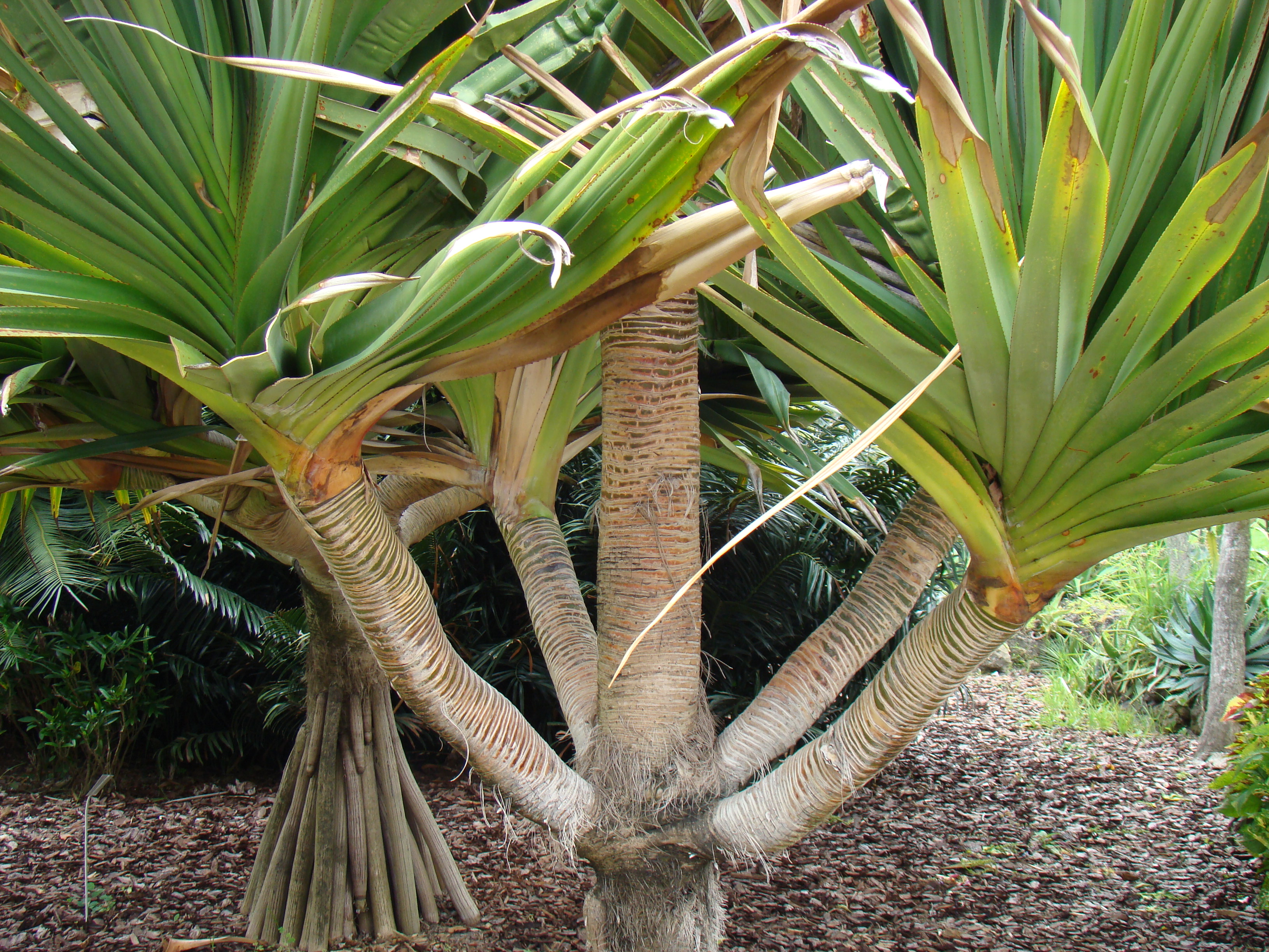 A Screwpine Pandanus utilis (Pandanaceae) tree in Mounts Botanical Garden, West Palm Beach, Florida.